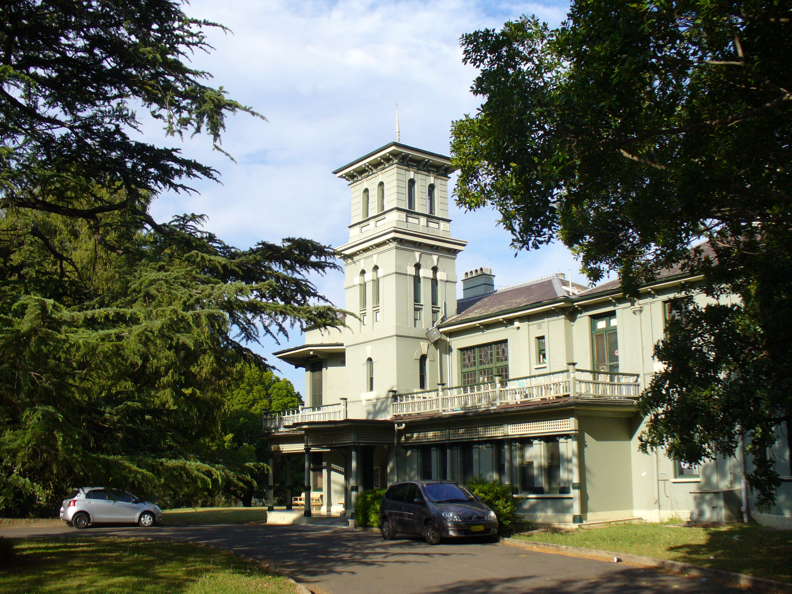 Yaralla Mansion (now Dame Edith Walker Convalescent Hospital), Concord, NSW, Australia. From original photo - numberplate has been blurred for privacy.